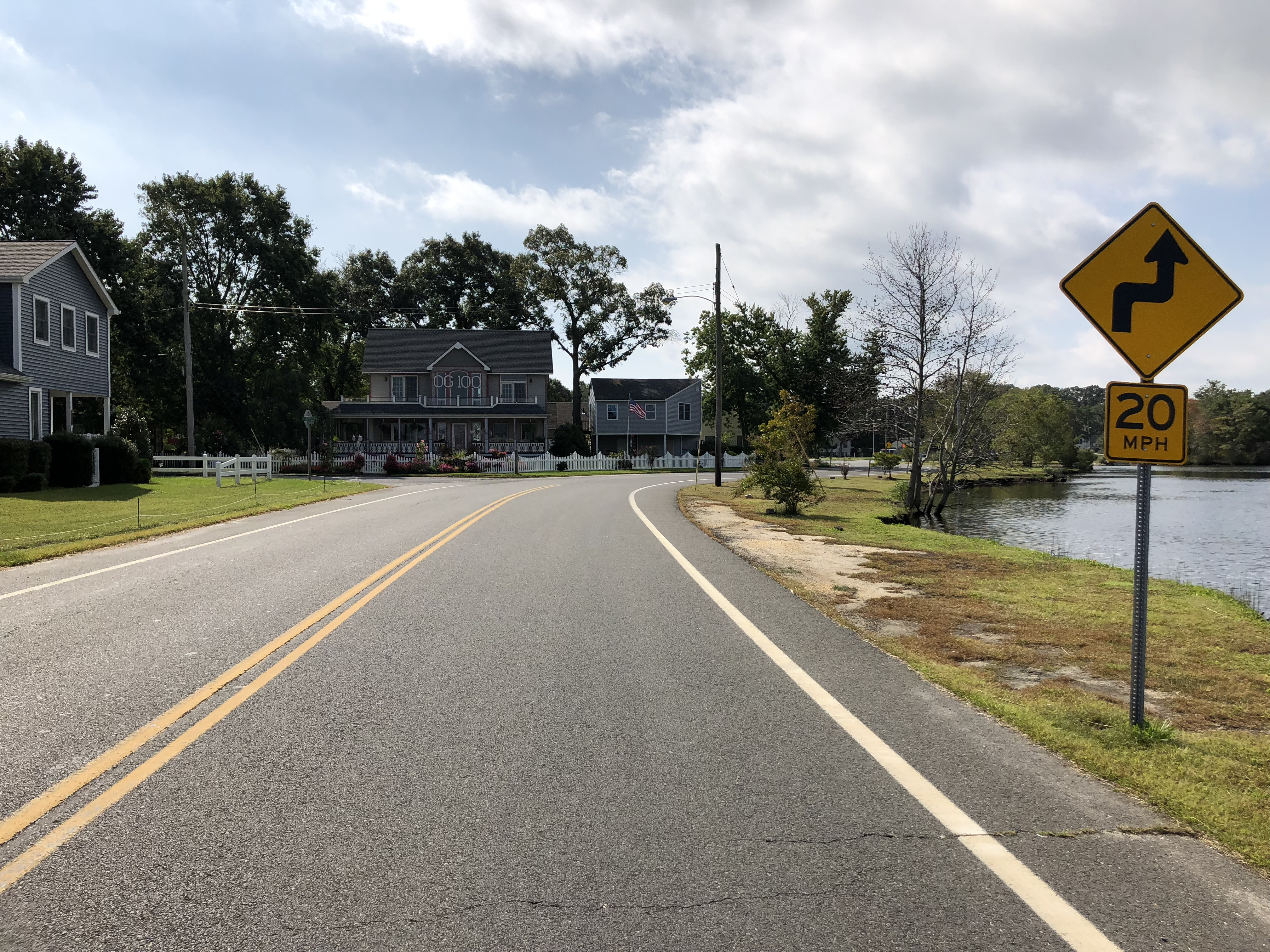 View south along Ocean County Route 625 (Ocean Gate Drive) just south of Ocean County Route 617 (Chelsea Avenue) in Ocean Gate, Ocean County, New Jersey